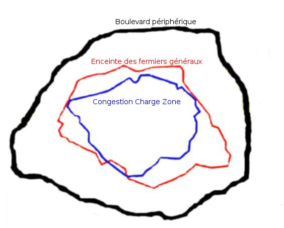 Comparison of London Congestion Charge Zone with the Enceinte des fermiers généraux in Paris